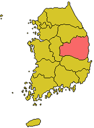 Diocese of Andong